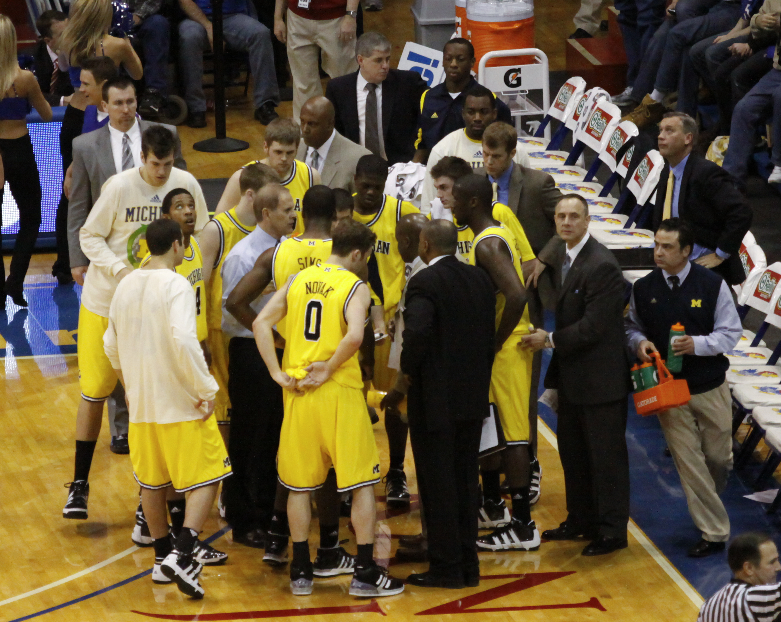 w:2008–09 Michigan Wolverines men's basketball team in a huddle at University of Kansas